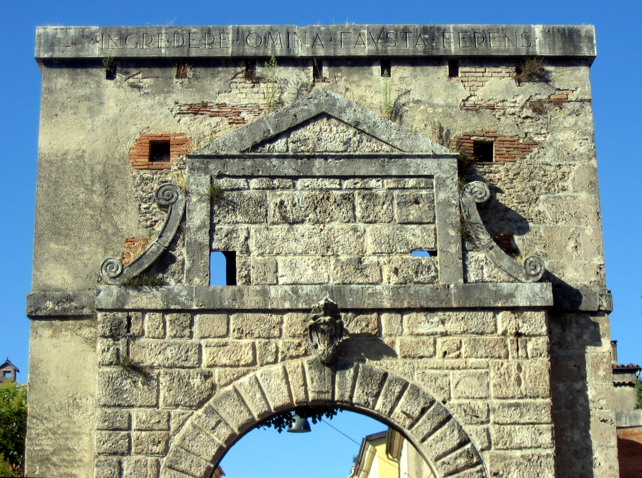 Porta Romana - Deatil - Rieti, Lazio, Italia